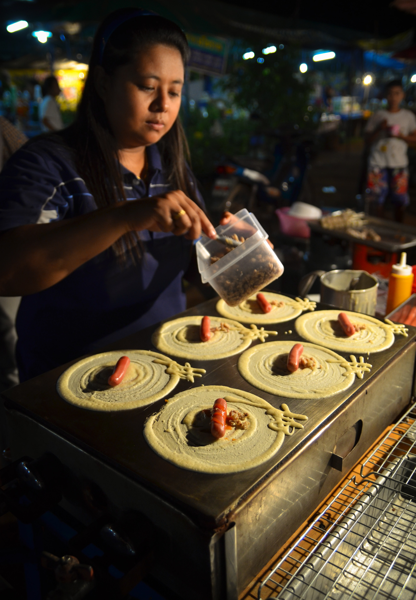 Khanom Tokiao (Thai script: ขนมโตเกียว; lit. "Tokyo cake") is the name for a Thai style crêpe wrapped around a hot dog with sweet chilli sauce. Other versions of khanom Tokyo use yam or sweet condensed milk as a filling.